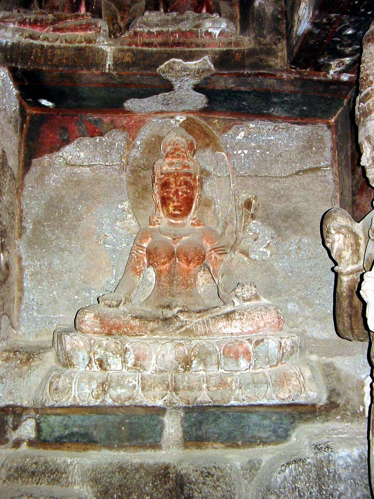 Goddess. Third floor, Cave 12, Ellora Both the goddess and her surrounding niche were originally painted, as shown from the traces which remain. Goddess iconography (such as Tara, Mahamayuri, etc) relates to the development of Esoteric Buddhism towards the end of the active period of Buddhist influence in India.